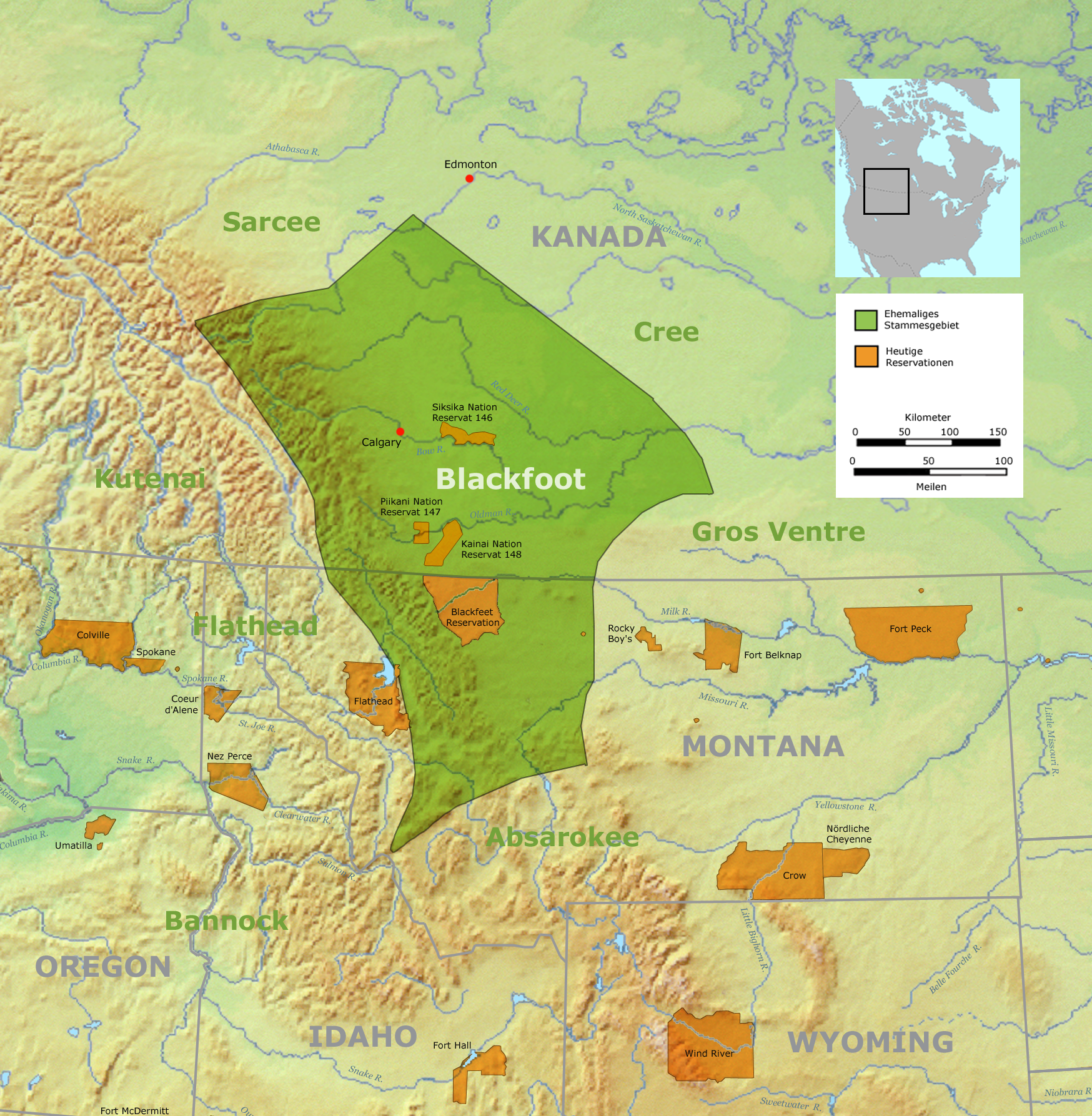 Tribal territory of Blackfoot